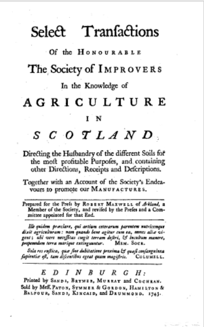 Frontispiece from R. Maxwell, ed., Select Transactions of the Honourable the Society of Improvers in the Knowledge of Agriculture in Scotland: Directing the Husbandry of the Different Soils for the Most Profitable Purposes, and Containing Other Directions, Receipts and Descriptions : Together with an Account of the Society's (Sands, Brymer, Murray, 1743)